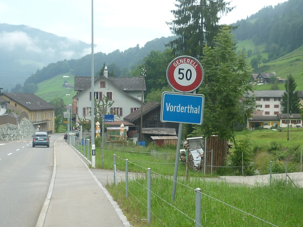 Vorderthal, canton of Schwyz in Switzerland.